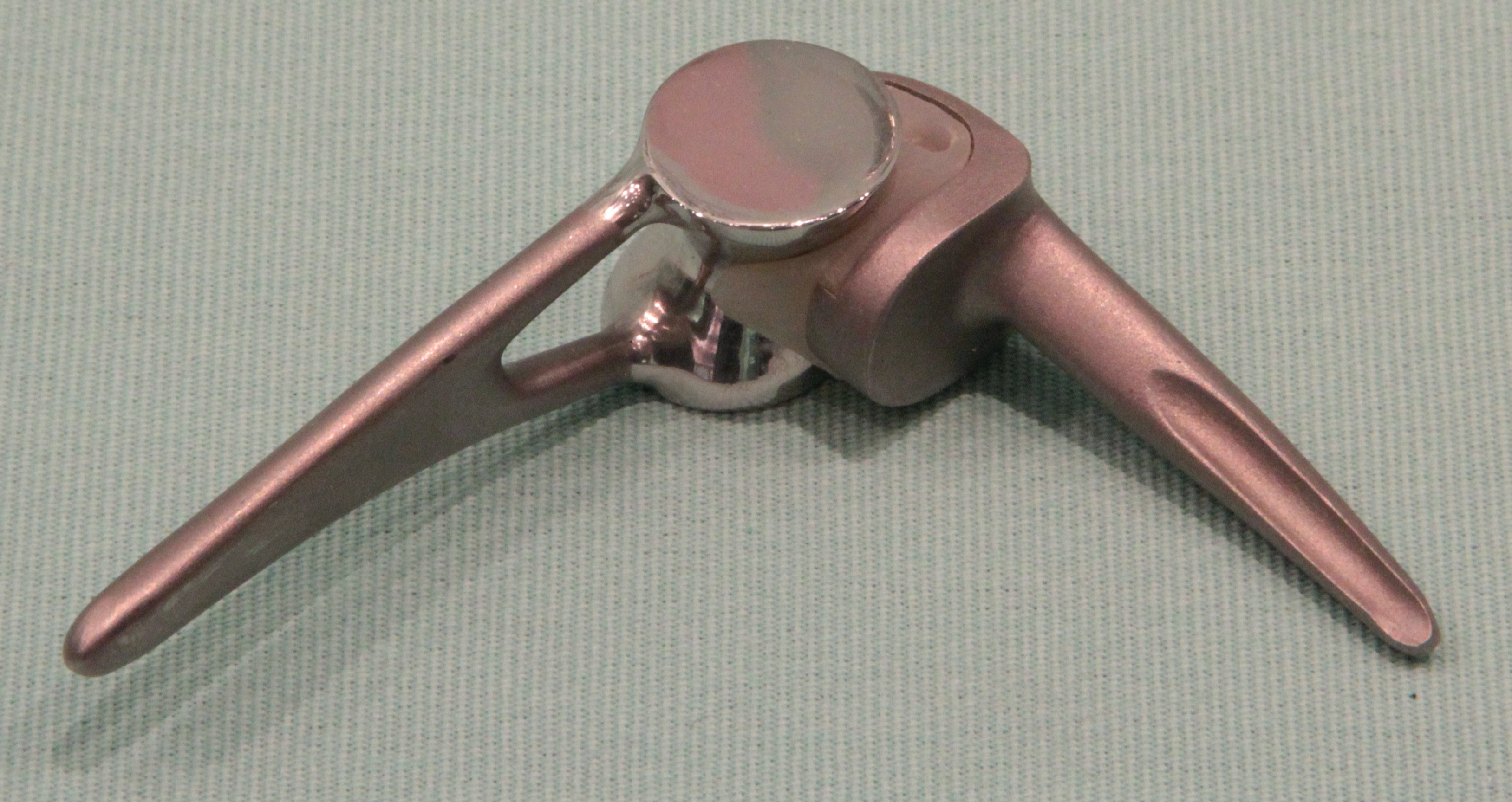 Elbow prothesis, 1996. Museum of Medical Instruments of the Hospital of Toulouse Native nameMusée des Instruments de Médecine des Hôpitaux de ToulouseParent institutionHôpitaux de ToulouseLocationToulouse, FranceCoordinates43° 35′ 57.48″ N, 1° 26′ 11.58″ E Established2004Web page control : Q3330252 institution QS:P195,Q3330252